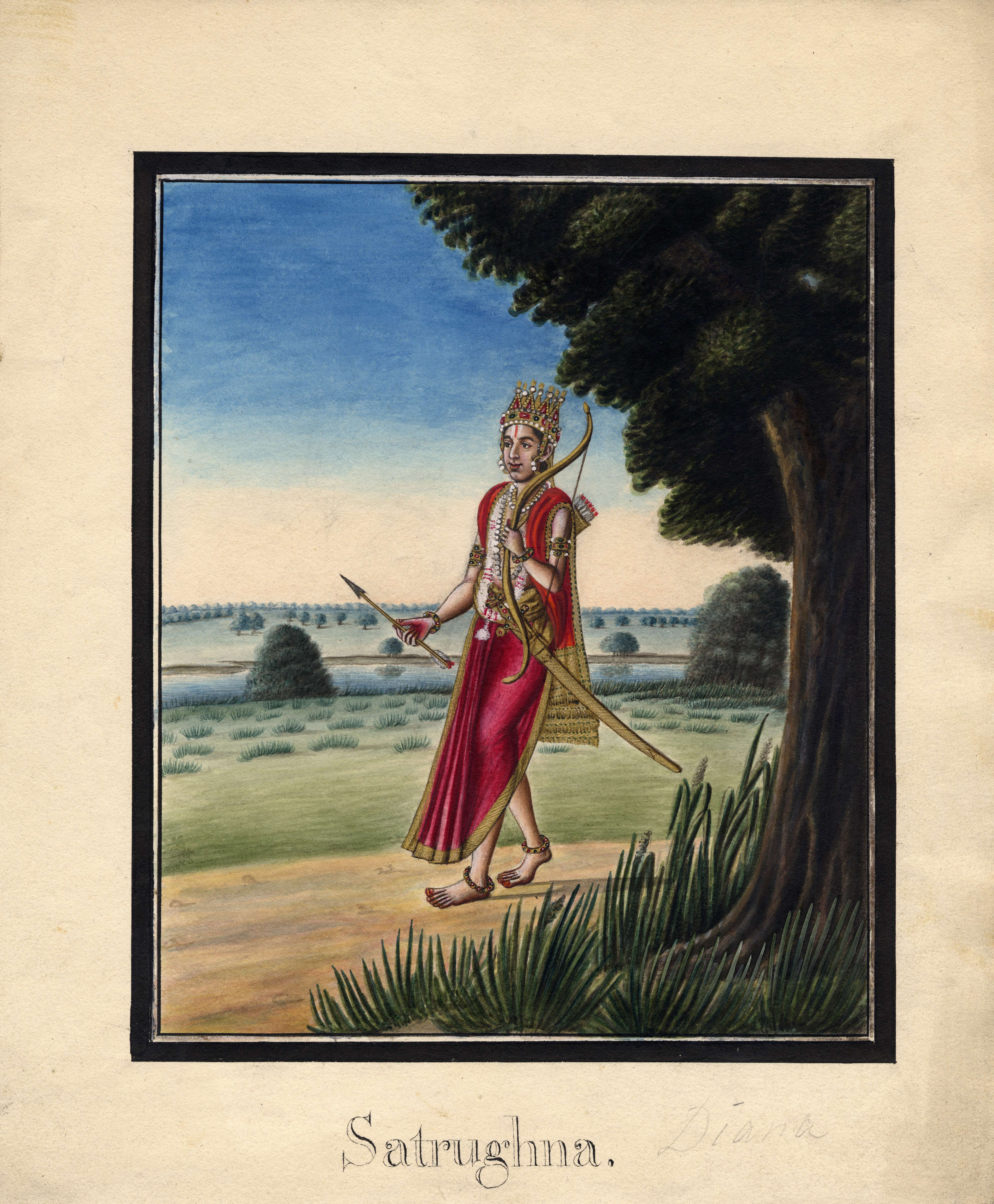 Satrughna, the youngest brother of Rāma. The painting shows Satrughna as a young male, walking along a path, with a tree on his left. In the distance on his right is shown trees and foliage. He wears a pink dhoti with a matching shawl draped over his shoulder. He is barefoot and wears anklets. He holds an arrow in his right hand and a bow over his left shoulder. At his waist hangs a sword. He is shown crowned and wearing necklaces, earrings and bracelets. The painting is surrounded by a black border.